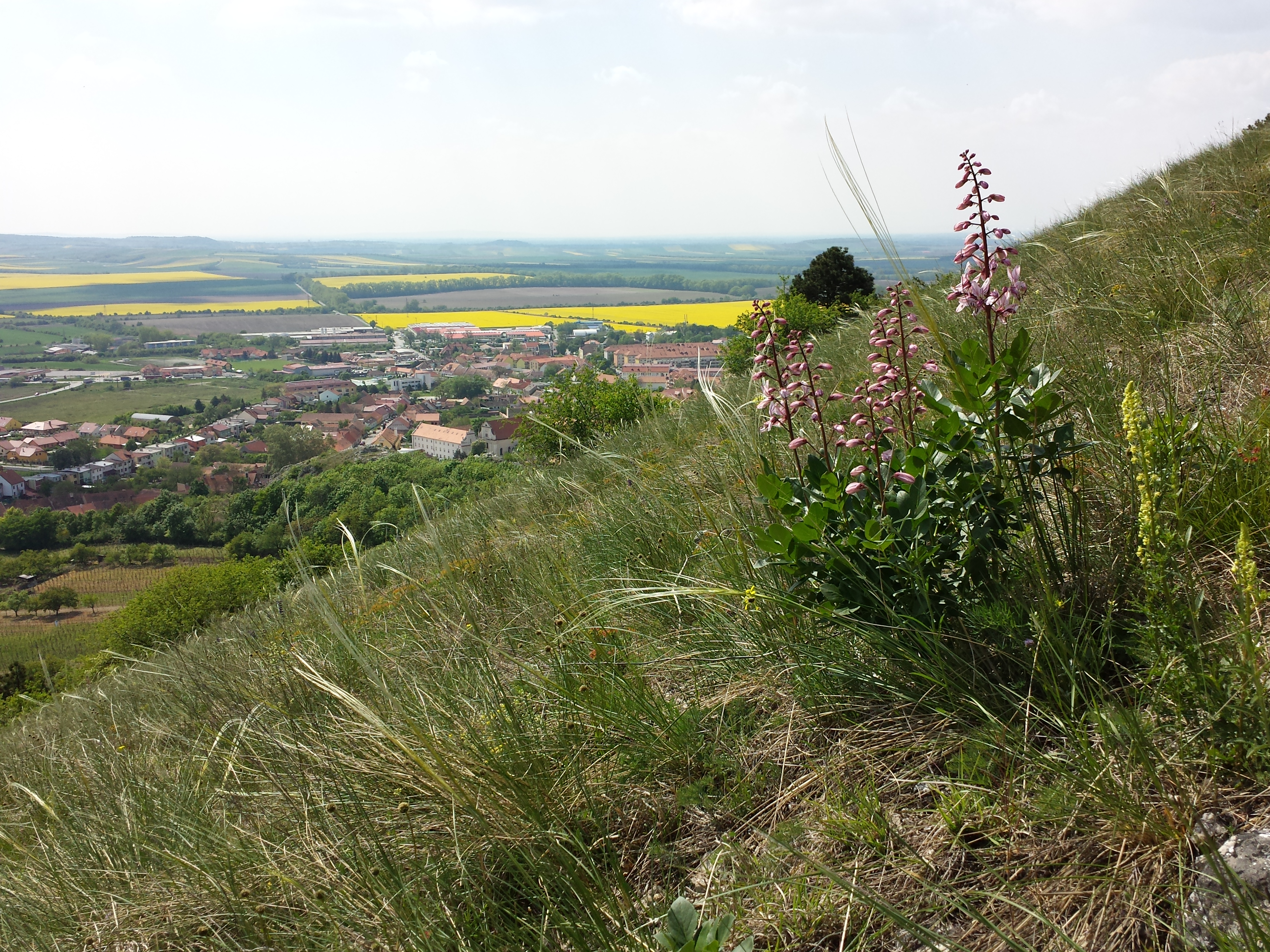 Habitus Taxon: Dictamnus albus and Stipa sp. (sensu Fischer et al. EfÖLS 2008 ISBN 978-3-85474-187-9) Location: Svatý kopeček, Mikulov, Jihomoravský kraj, Czech Republic - 363 m a.s.l. Habitat: rock steppe (lime rock)